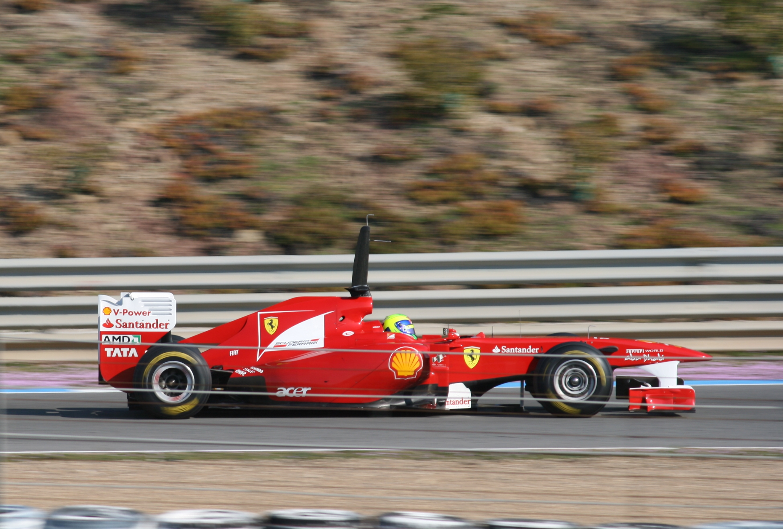 Felipe Massa testing for Scuderia Ferrari at Jerez.